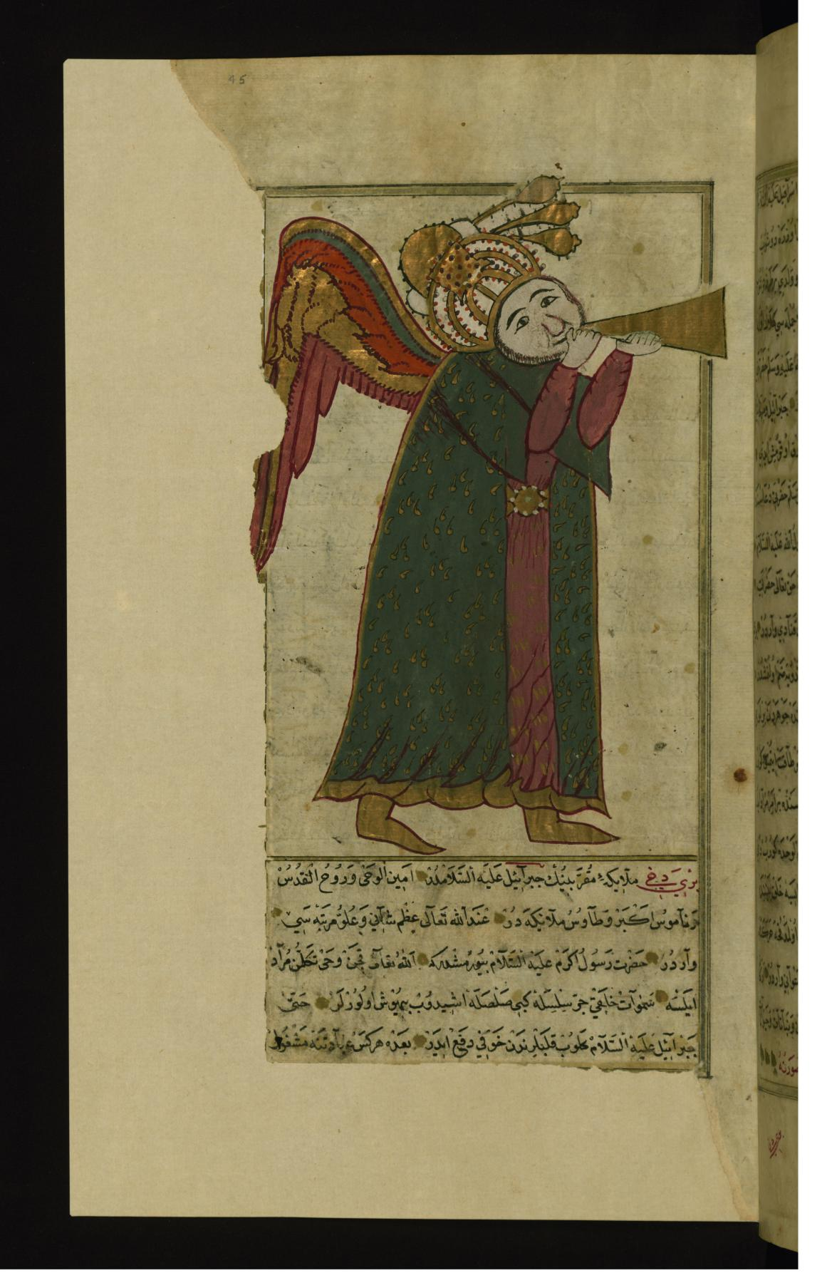 This folio from Walters manuscript W.659 depicts the angel Israfil.